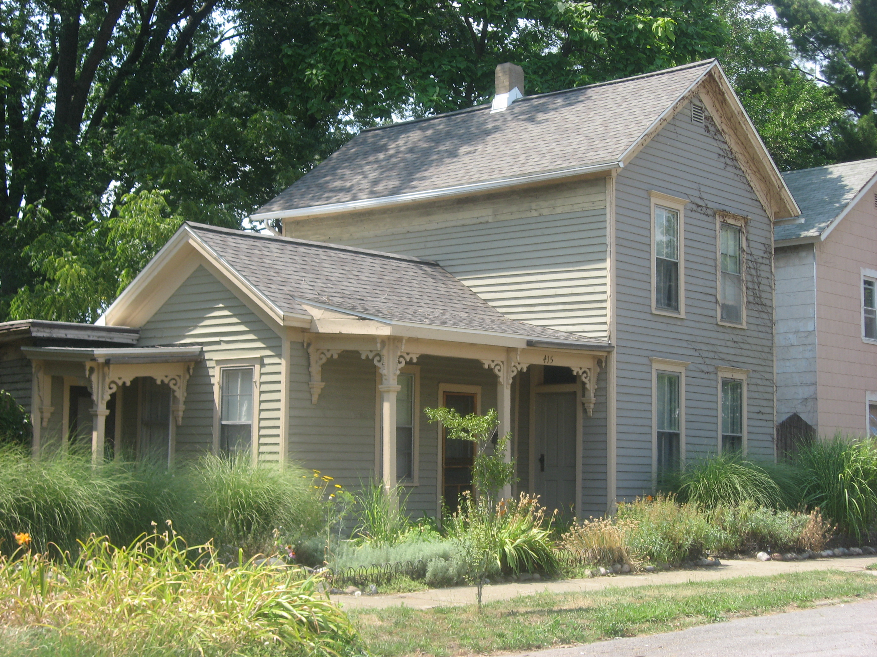 Front and southern side of the Sommerer House, located at 415 Parry Street in South Bend, Indiana, United States. Built in 1875, it is listed on the National Register of Historic Places.